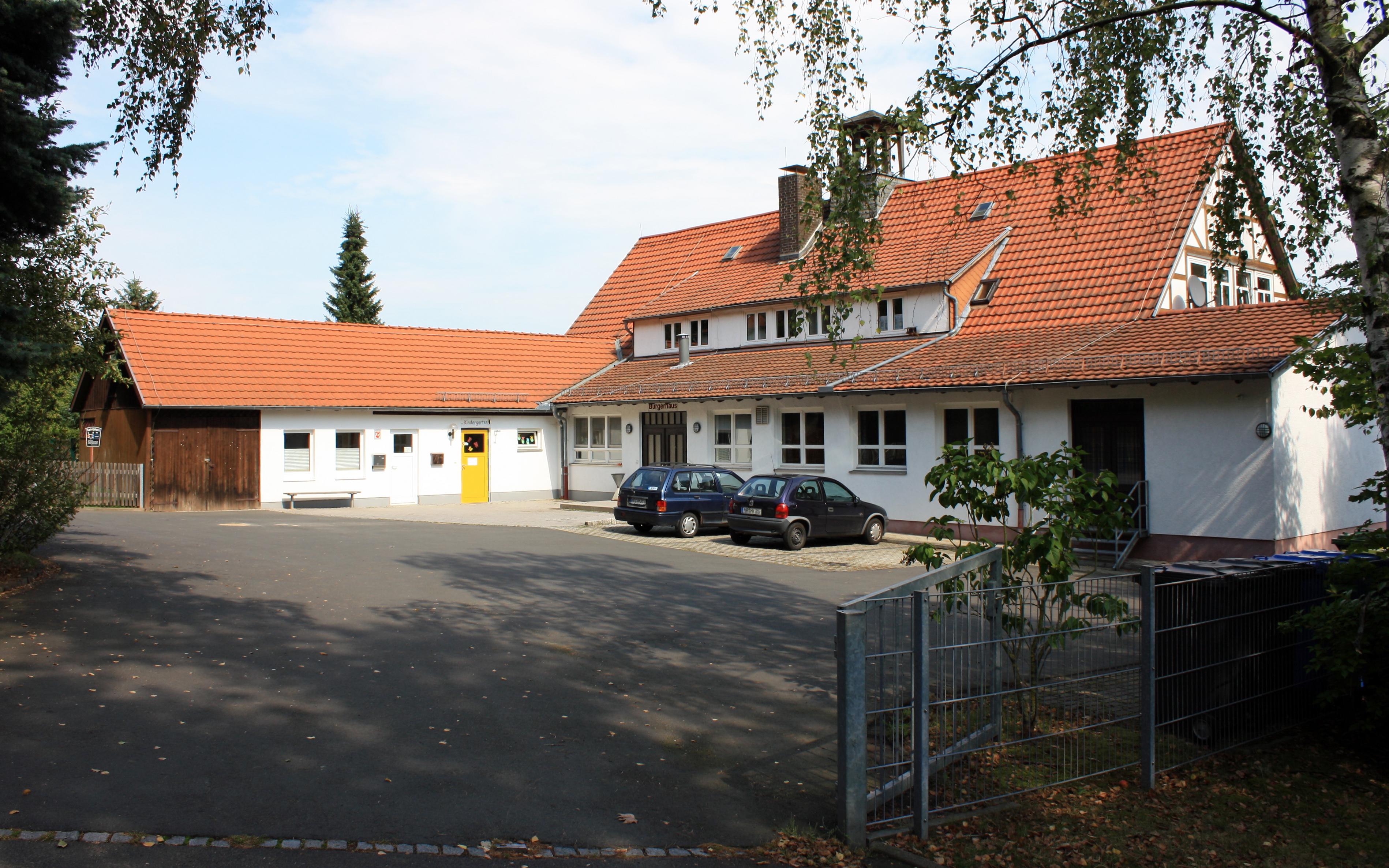 Community centre of Marburg-Gisselberg